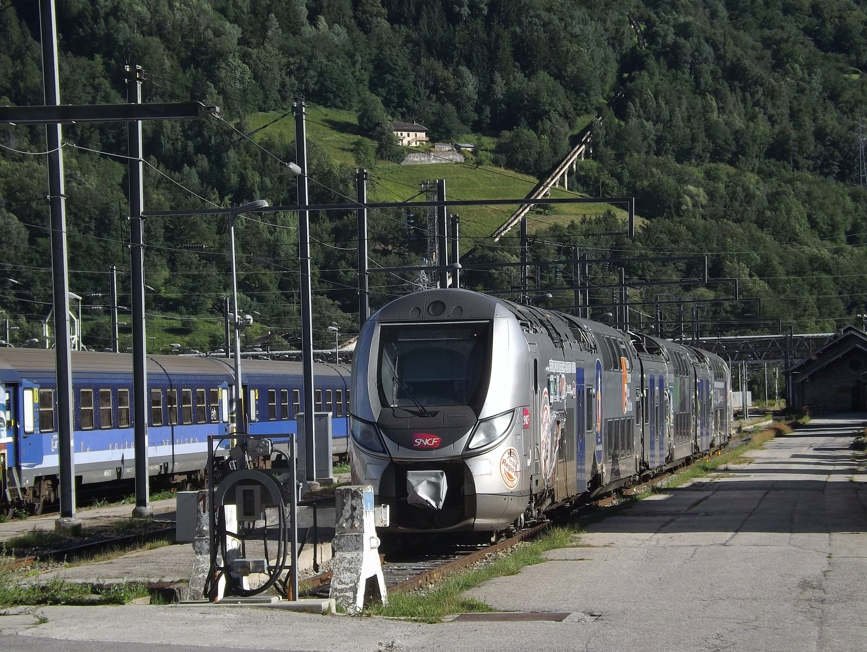 Sight of the Régio2N train in the city of Bourg-Saint-Maurice railway station (Savoie, France), during the tests period in 2013.